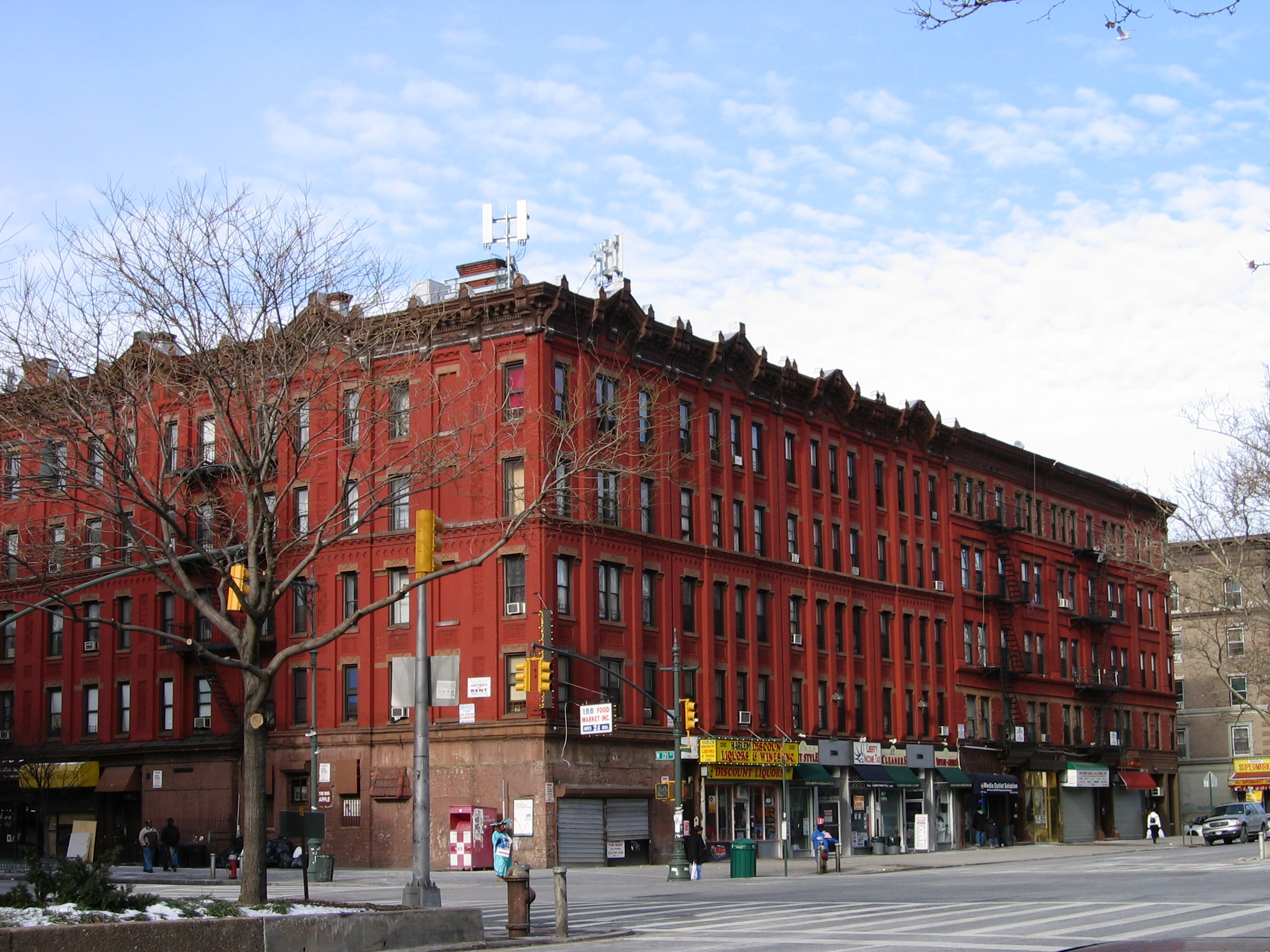 Northwest corner of W 135 Street and 7th Avenue in Harlem.